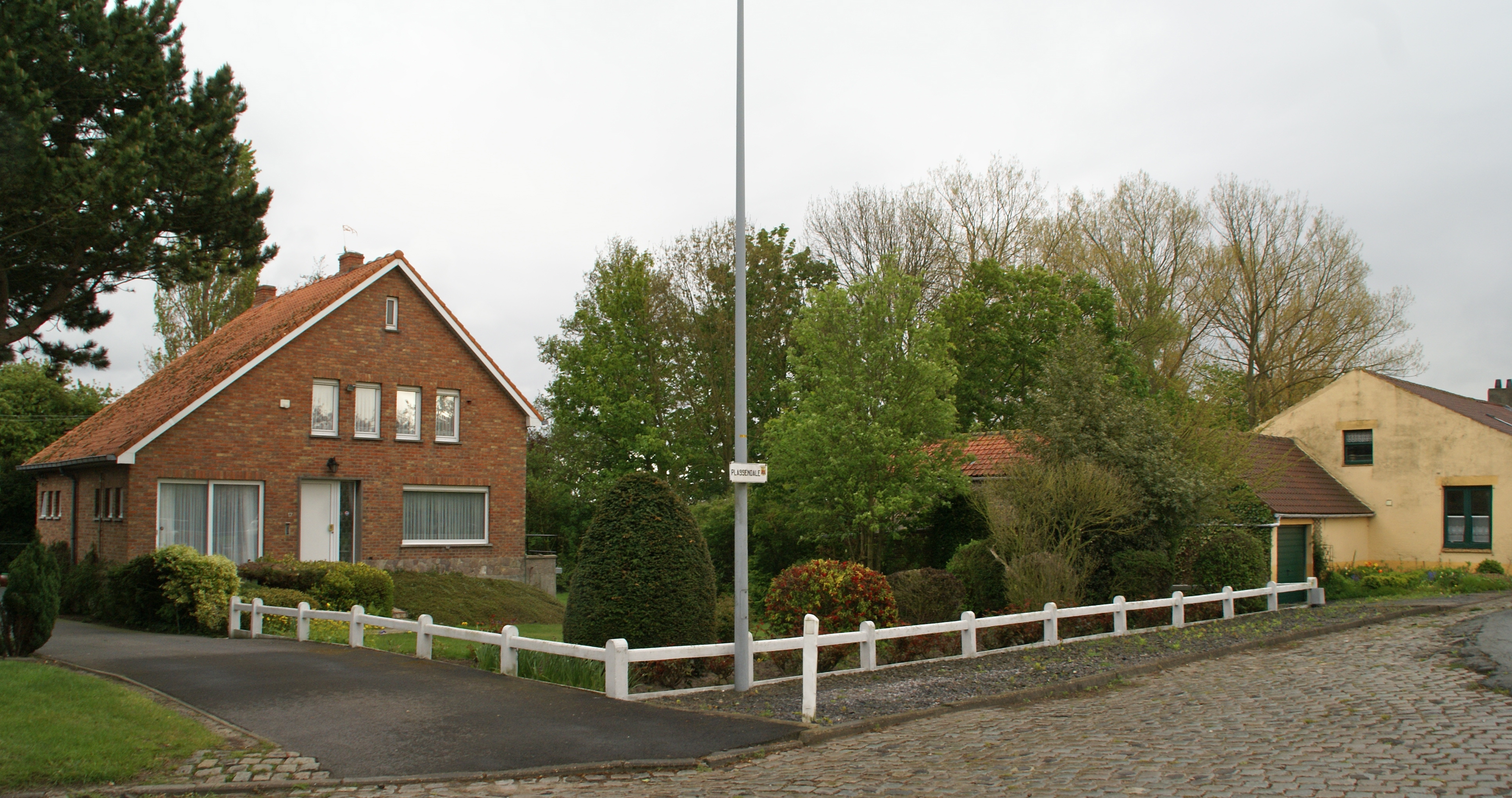 Oudenburg (Belgium): The village of Plassendale